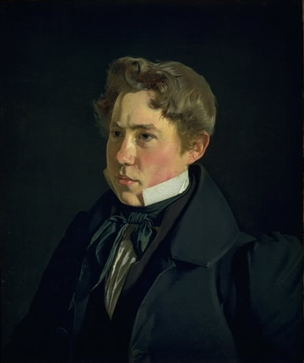 Gemzøe was part of a circle of artists that included Christen Købke and Wilhelm Bendtz.